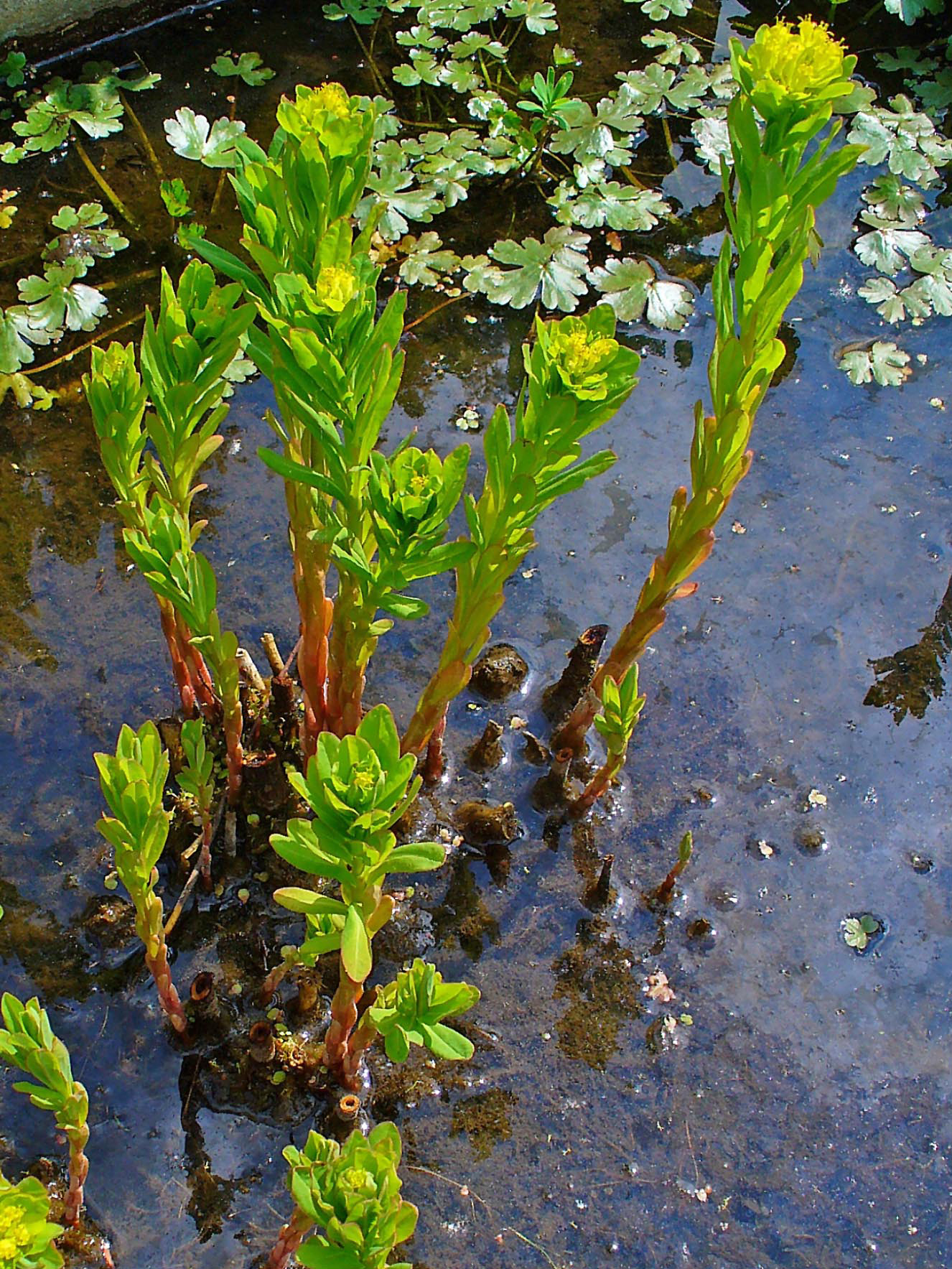 Euphorbia palustris, Euphorbiaceae, Marsh Spurge, habitus; Botanical Garden KIT, Karlsruhe, Germany. The plant is used in homeopathy as remedy: Euphorbia palustris (Euph-pa.)